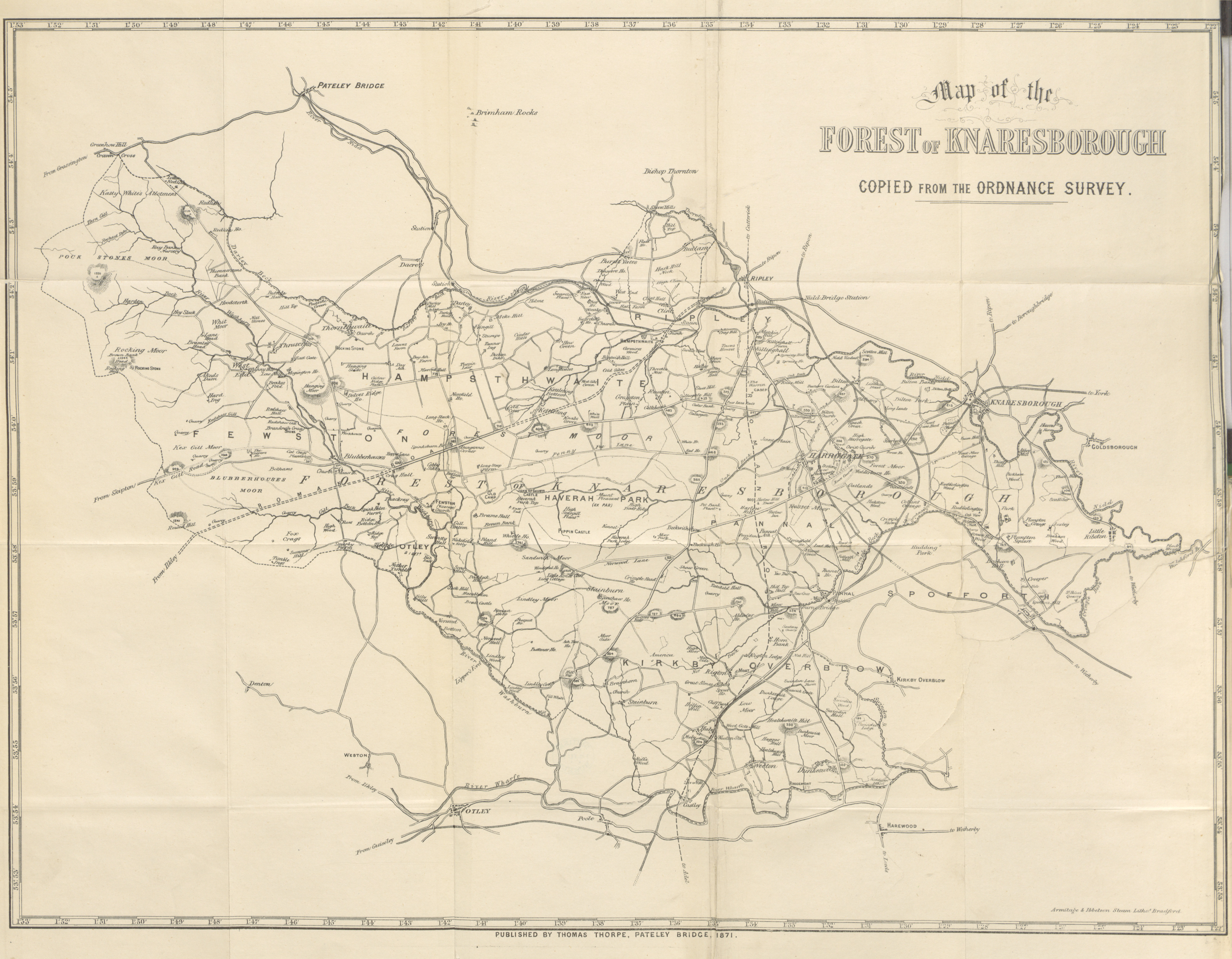 View this map on the BL Georeferencer service. Image taken from: Title: "The History and Topography of Harrogate, and the Forest of Knaresborough" Author: GRAINGE, William. Shelfmark: "British Library HMNTS 010360.ee.4." Page: 8 Place of Publishing: London, Pately Bridge [printed] Date of Publishing: 1871 Issuance: monographic Identifier: 001484577 Explore: Find this item in the British Library catalogue, 'Explore'. Download the PDF for this book (volume: 0) Image found on book scan 8 (NB not necessarily a page number) Download the OCR-derived text for this volume: (plain text) or (json) Click here to see all the illustrations in this book and click here to browse other illustrations published in books in the same year. Order a higher quality version from here.